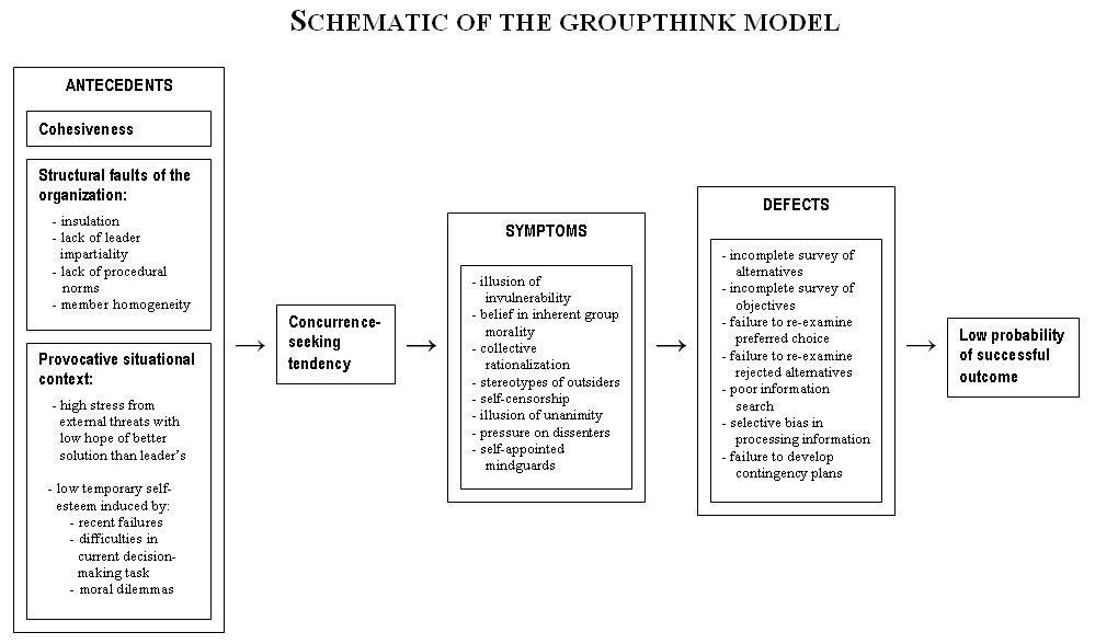 schematic of the groupthink model based on Janis' articles